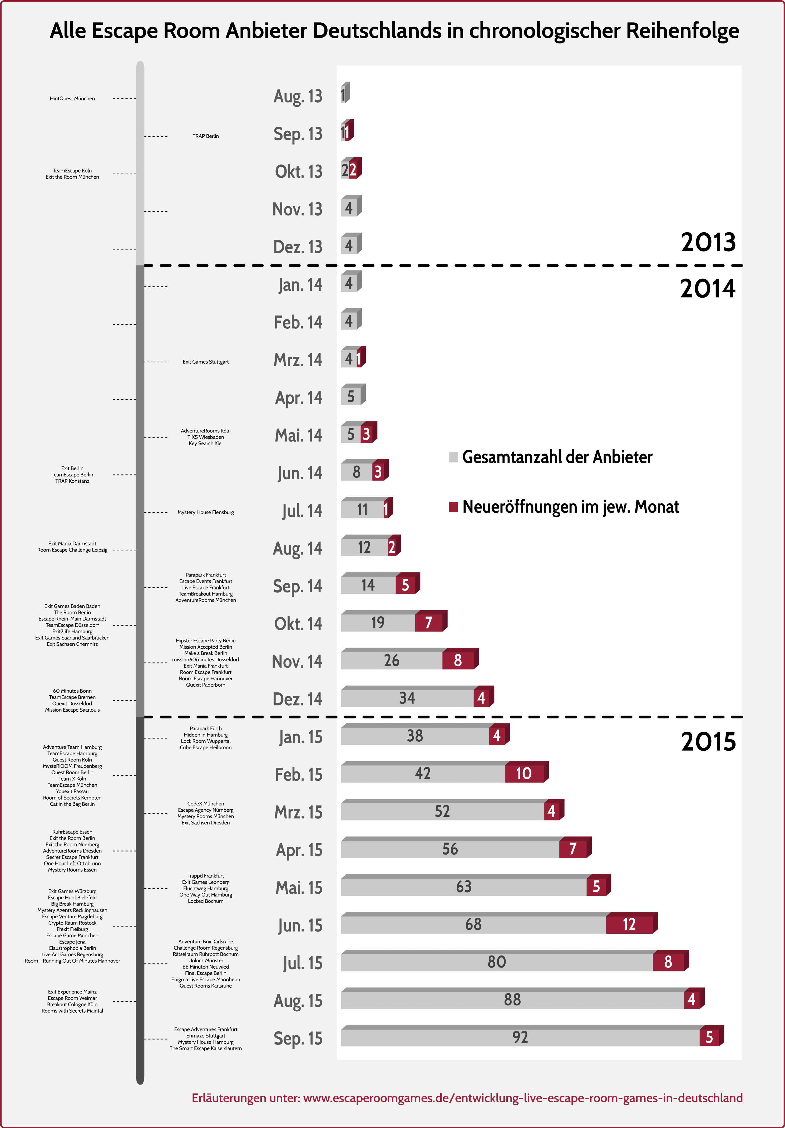 All Live Escape Room Game Provider in Germany, who opened until the end of September 2015, ordered by their time of opening in a time line.